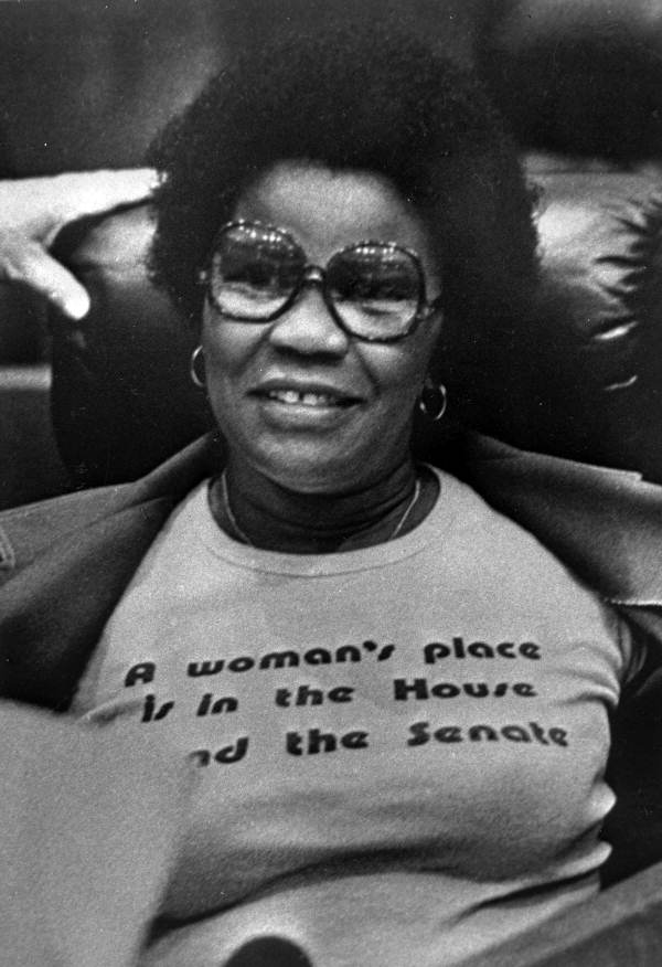 Local call number: N035226 Title: Representative Carrie Meek Date: 1980 General note: Representative Carrie Meek's shirt reads: "A women's place is in the House and the Senate." Meek wore this prophetic T-shirt in the Florida House chamber in 1980, where she served from 1978 to 1983. In 1982, she became the first African-American woman elected to the Florida Senate. Meek later served in the United States Congress (1992-2001). Prior to her career in politics, she taught at Bethune-Cookman College in Daytona Beach and Florida A&M University in Tallahassee. Physical descrip: 1 photonegative - b&w - 4 x 5 in. Series Title: General collection Repository: State Library and Archives of Florida, 500 S. Bronough St., Tallahassee, FL 32399-0250 USA. Contact: 850.245.6700. Persistent URL: Visit Florida Memory to find resources for Women's History Month and to learn more about the contributions of women in Florida history. Visit Florida Memory to find resources for Black History Month and to learn about the contributions of African-Americans in Florida history.